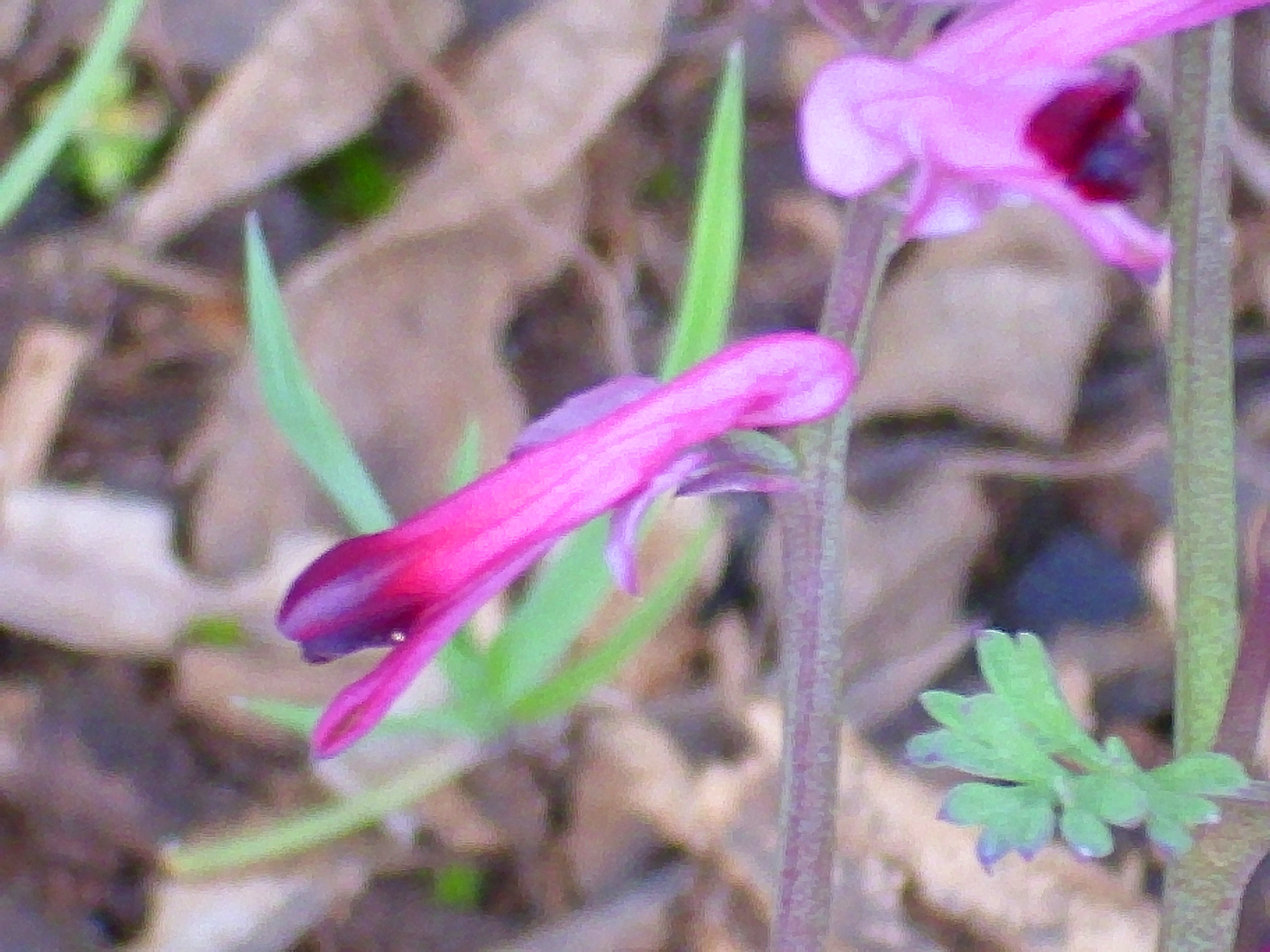 Fumaria reuteri close up, Sierra Madrona, Spain